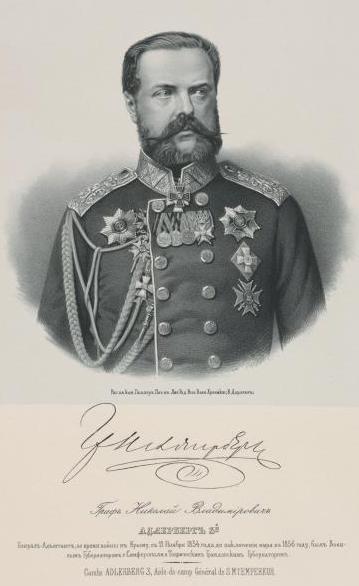 Russian general Count Nikolai Adlerberg, governor of Russian Finland, Simferopol and Taganrog